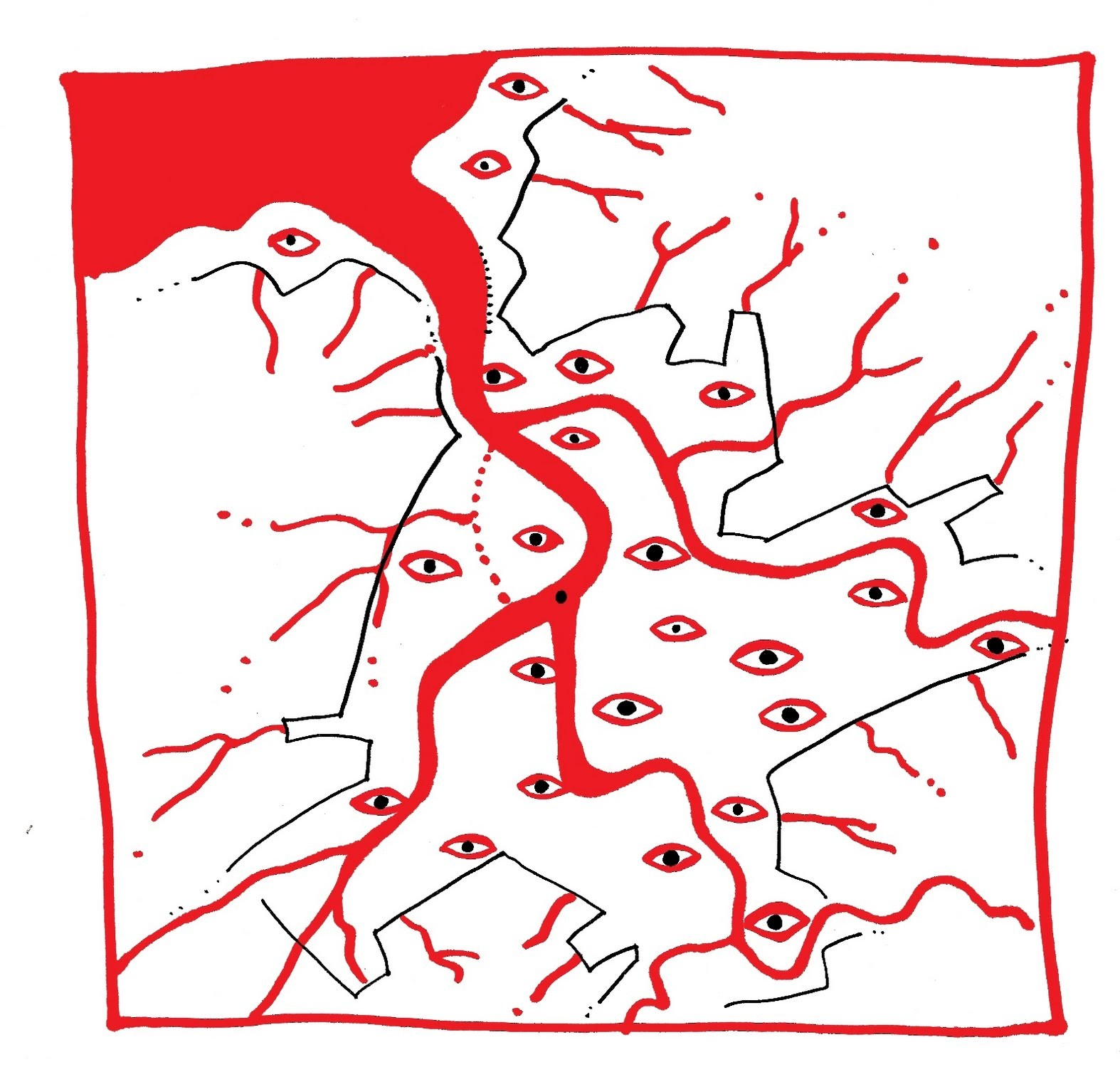 Taipei Organic Acupuncture. Drawing Marco Casagrande, 2010. Permission: Public Domain. / tel. +358.50.3089166